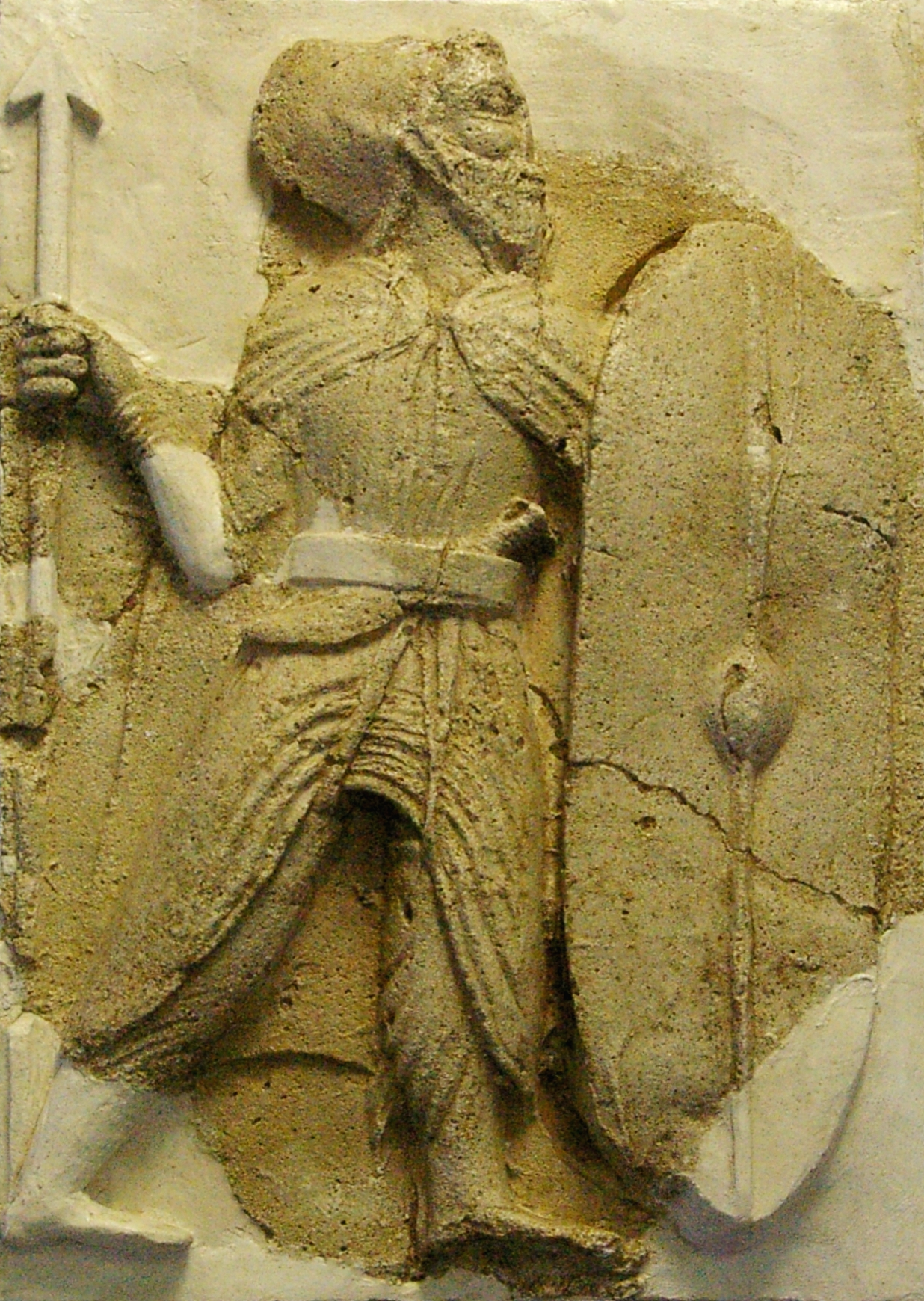 Stucco relief of an infantry soldier, from the Iranian Parthian Dynasty (247 BC - 224 AD), Zahhak castle, Hashtrud, Eastern Azerbaijan, Iran. Azerbaijan Museum, Tabriz (Iran).